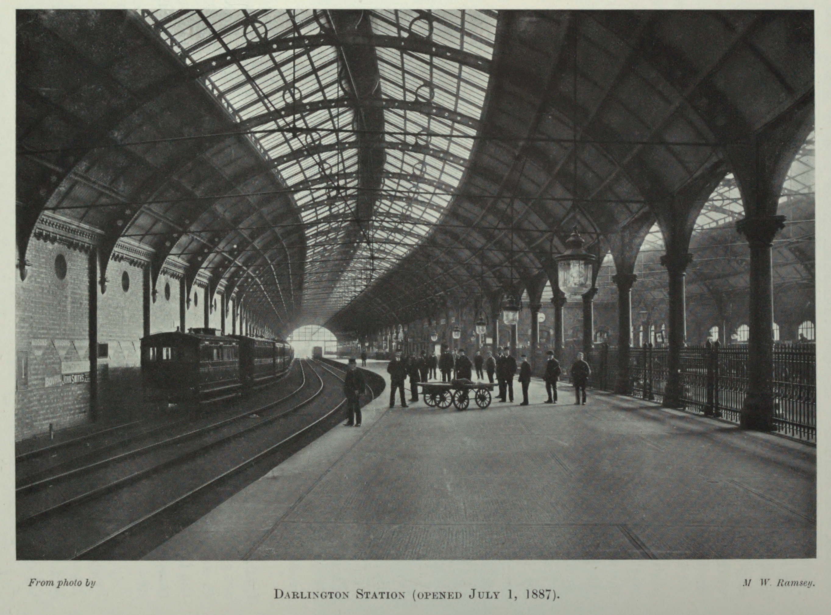 Photograph of the new Darlington railway station that opened in 1887.